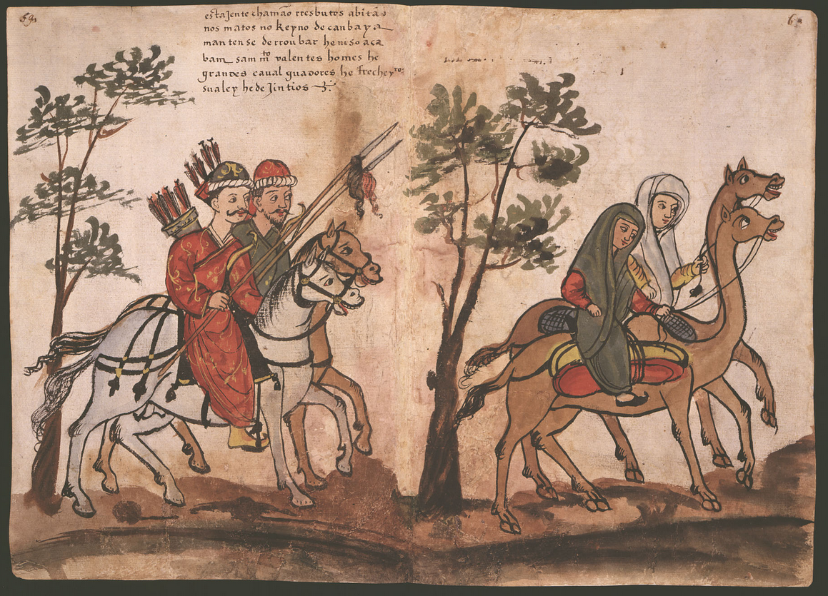 An illustration from the anonymous 16th century Portuguese codex now at the Biblioteca Casanatense, in Rome. It depicts Rajputs from the Sultanate of Gujarat in northwestern India. The inscription reads: "These people are named rresbutos and inhabit the outback of the Kingdom of Cambay - they sustain themselves out of robbing and die from it. They are very brave men and great horsemen and bowmen; their law is that of gentiles"